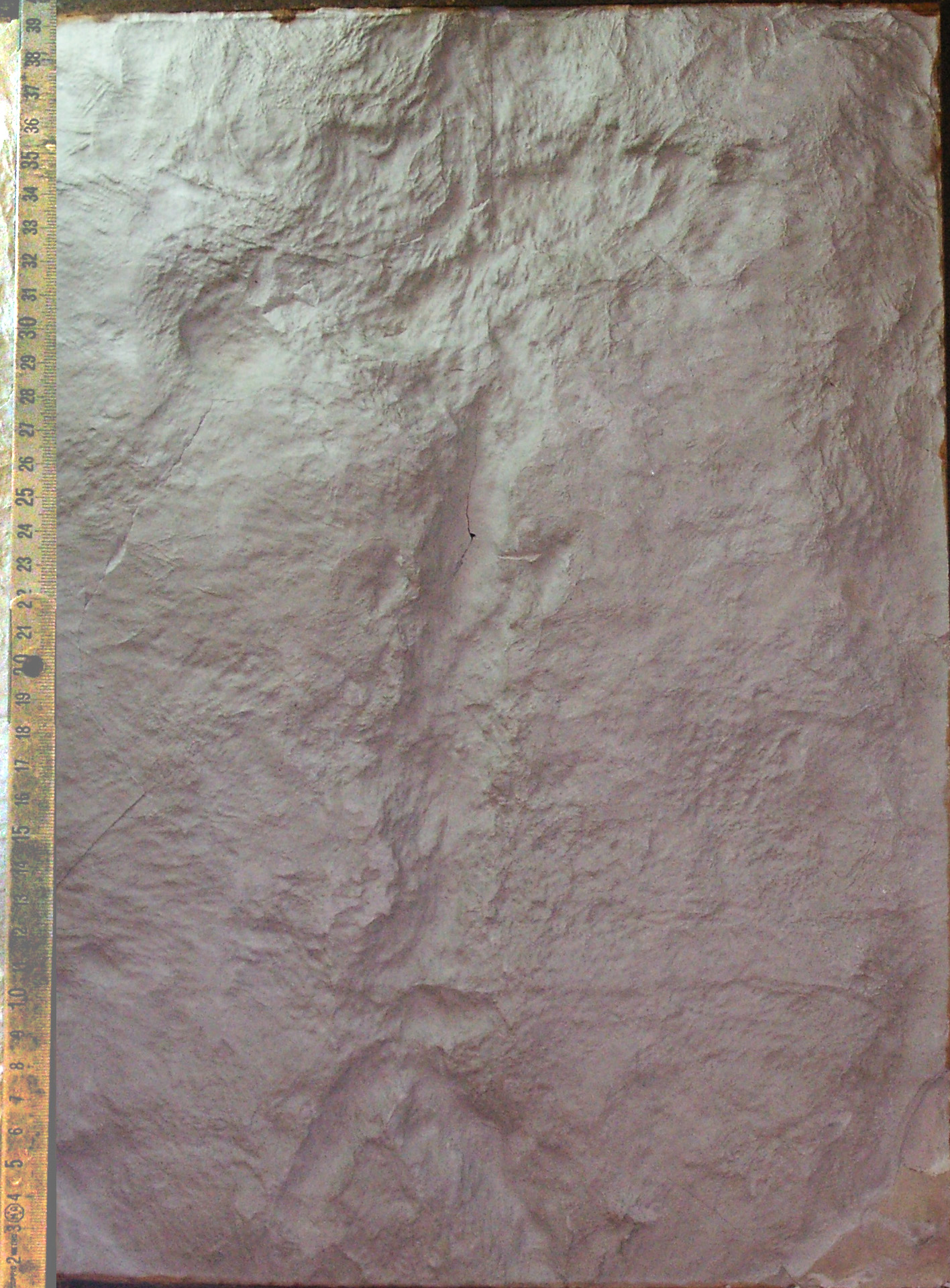 Plaster casting of a rock engraving representative of a human figure on the Ciappo of Conche made in 1965